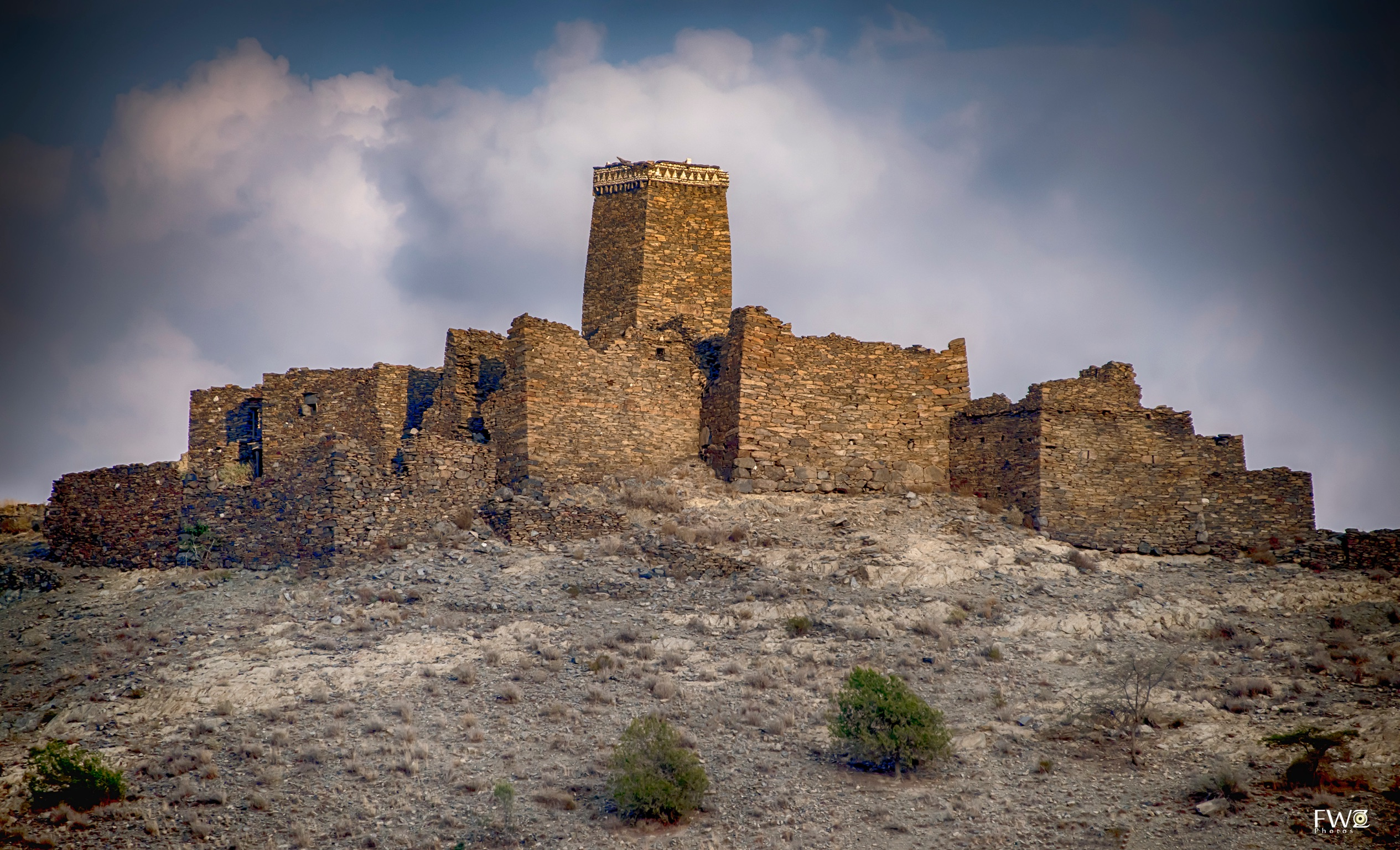 One of the fortifications of the village of Bani Malik south of the province of Taif, where the age of the fort about 400 years and I was honored to meet one of the grandchildren who lived his grandparents fortress where they lived within 3 families